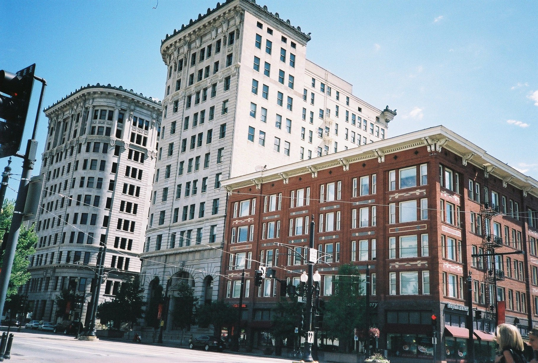 Buildings dans le centre-ville de Salt lake City dans l'Utah, Wyoming